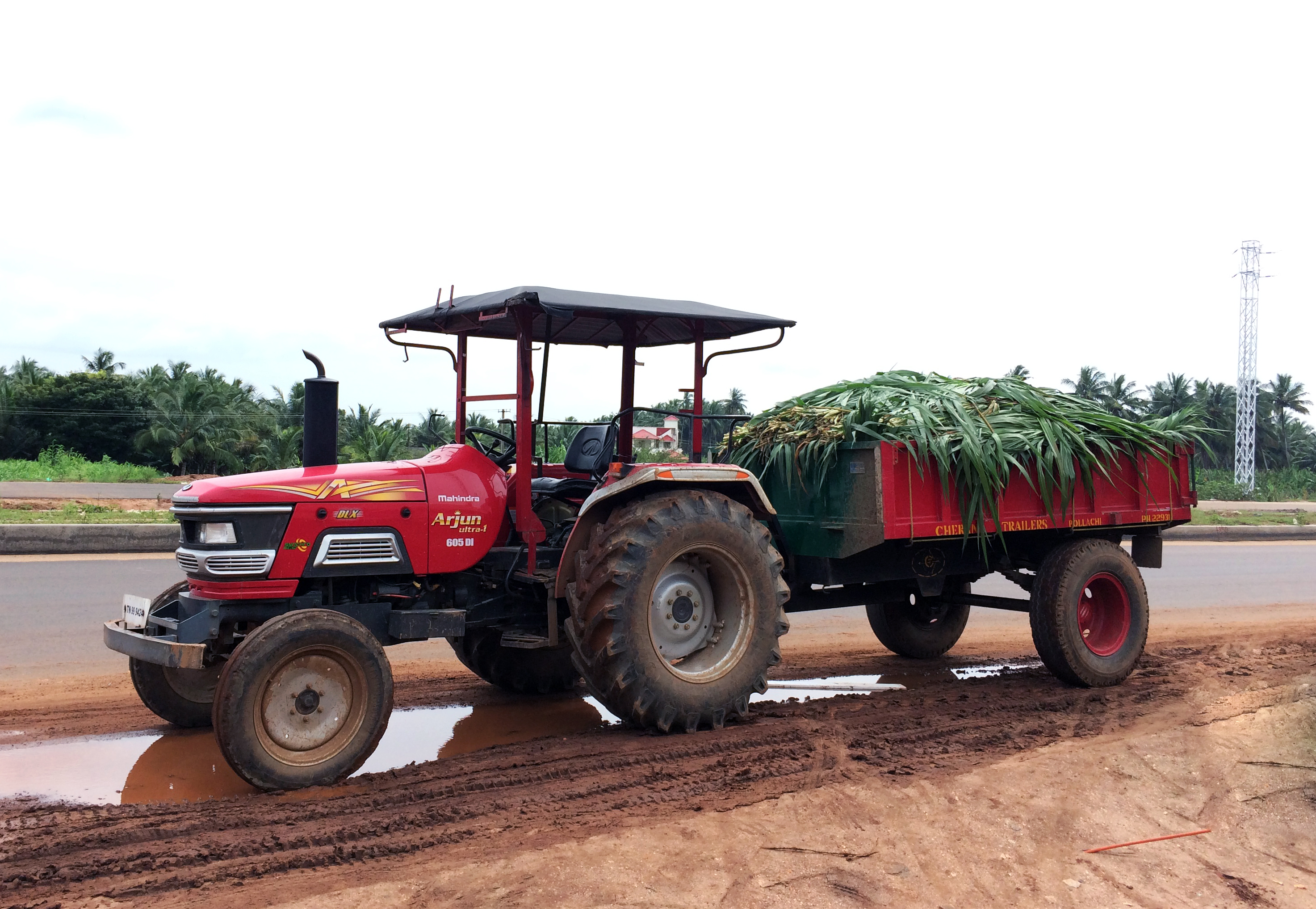 Mahindra Arjun 605 DI tractor with trailer near Coimbatore Palghat highway.